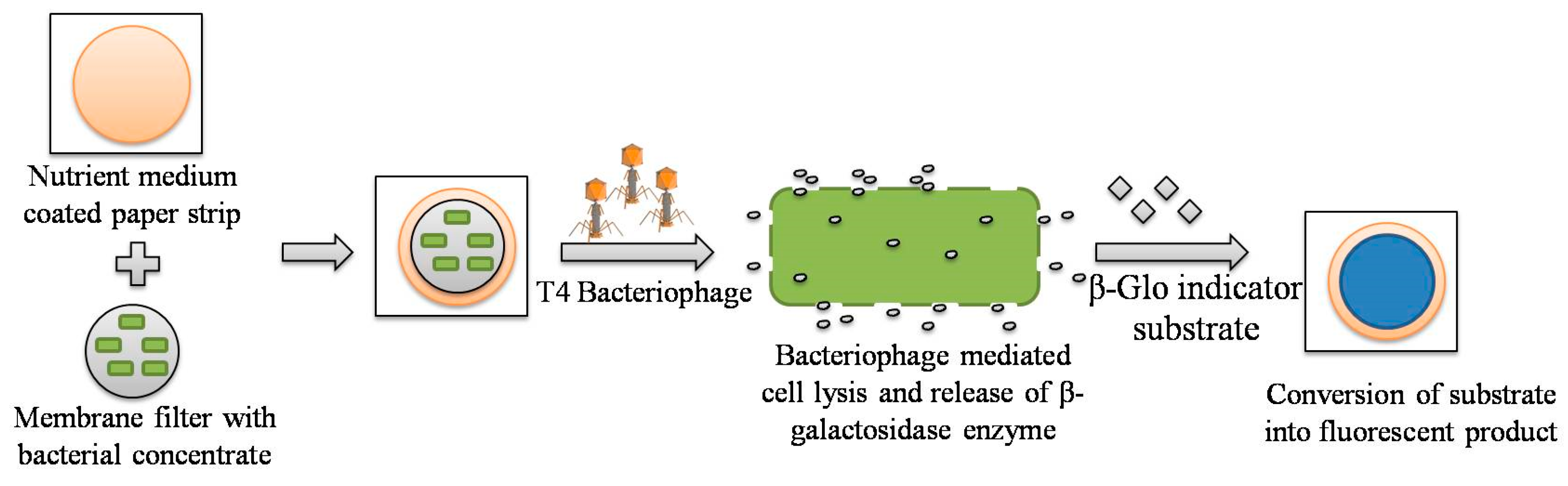 A hand-held, paper-based biosensor for the detection of E. coli developed by Burnham et al. at the University of Guelph.